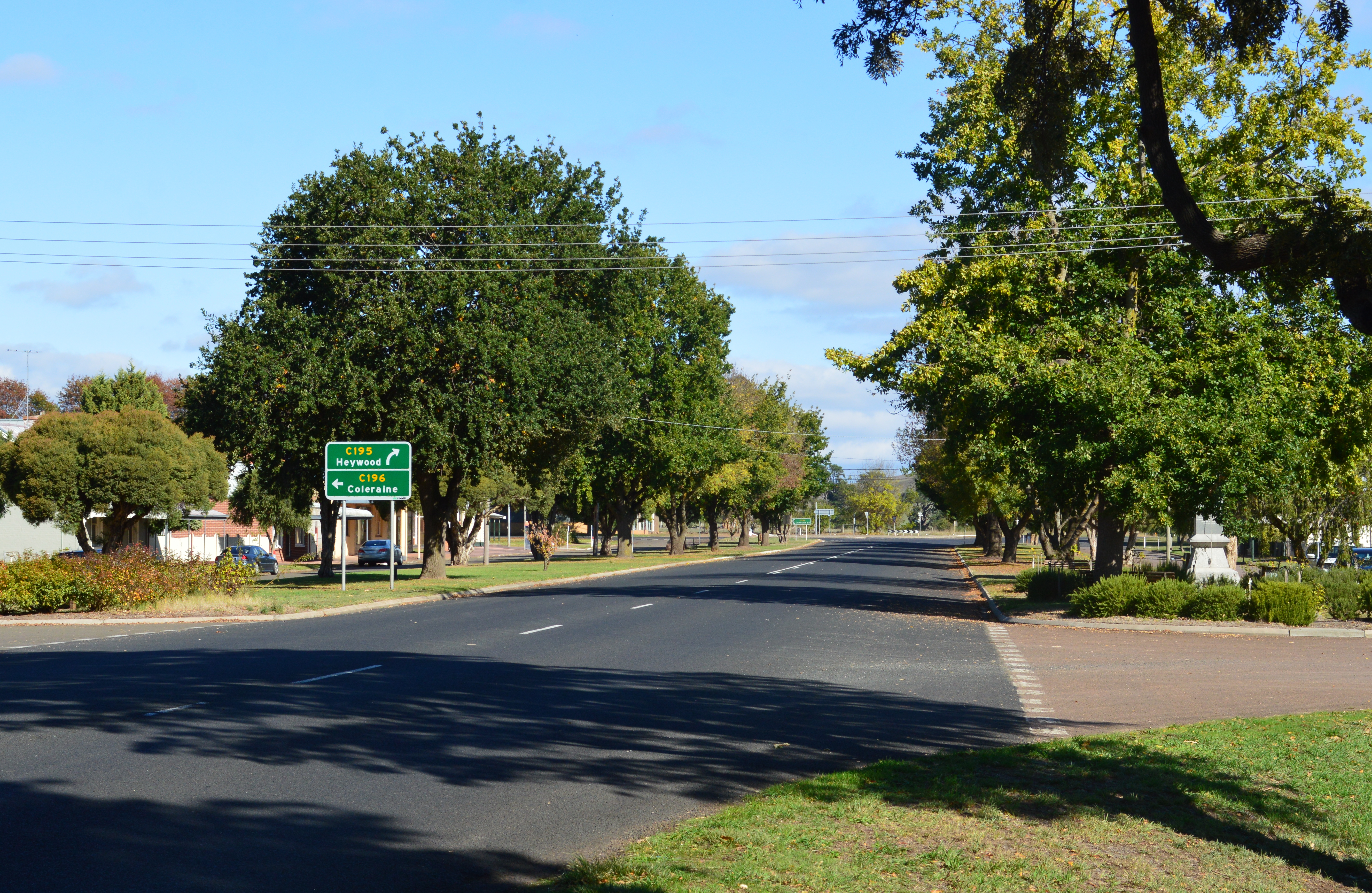 An avenue commemorating the coronation of King George VI at Merino, Victoria